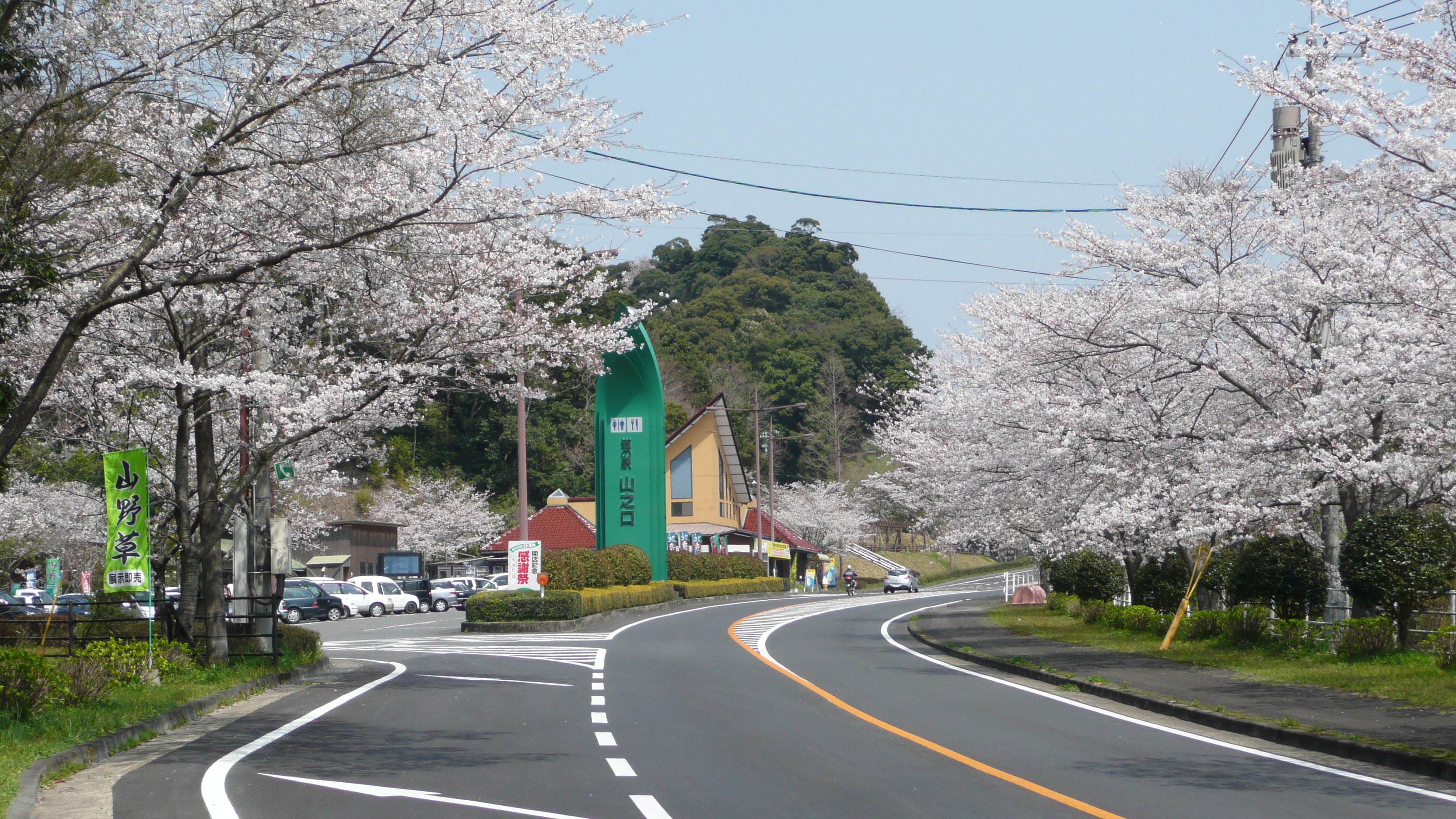 Route 269 - Michinoeki Yamanokuchi (Miyakonojo City, Miyazaki, Japan)